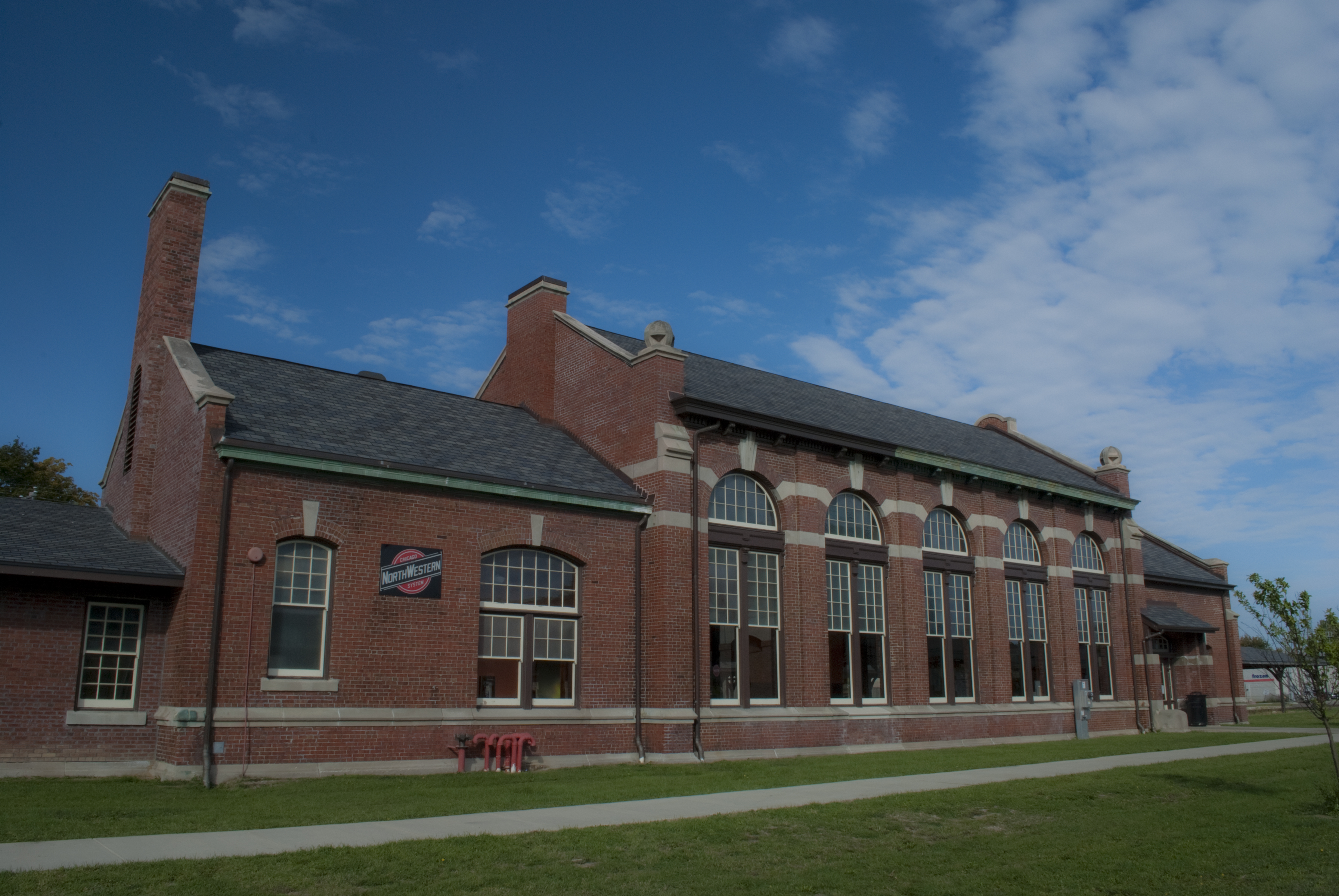 Peter Johnson House